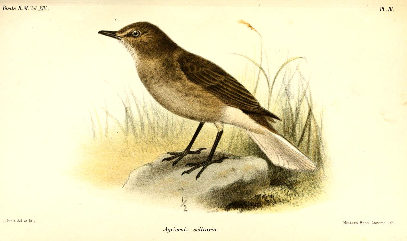 Agriornis solitaria = Agriornis montana solitaria, Black-billed Shrike-tyrant